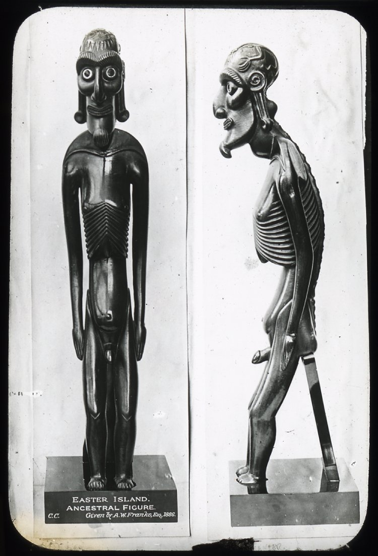 Lantern Slide (black and white), two images spliced together; a front and side view of the same wooden moai Kavakava anthropomorphic figure carving representing akuaku spirits, supported on a base.